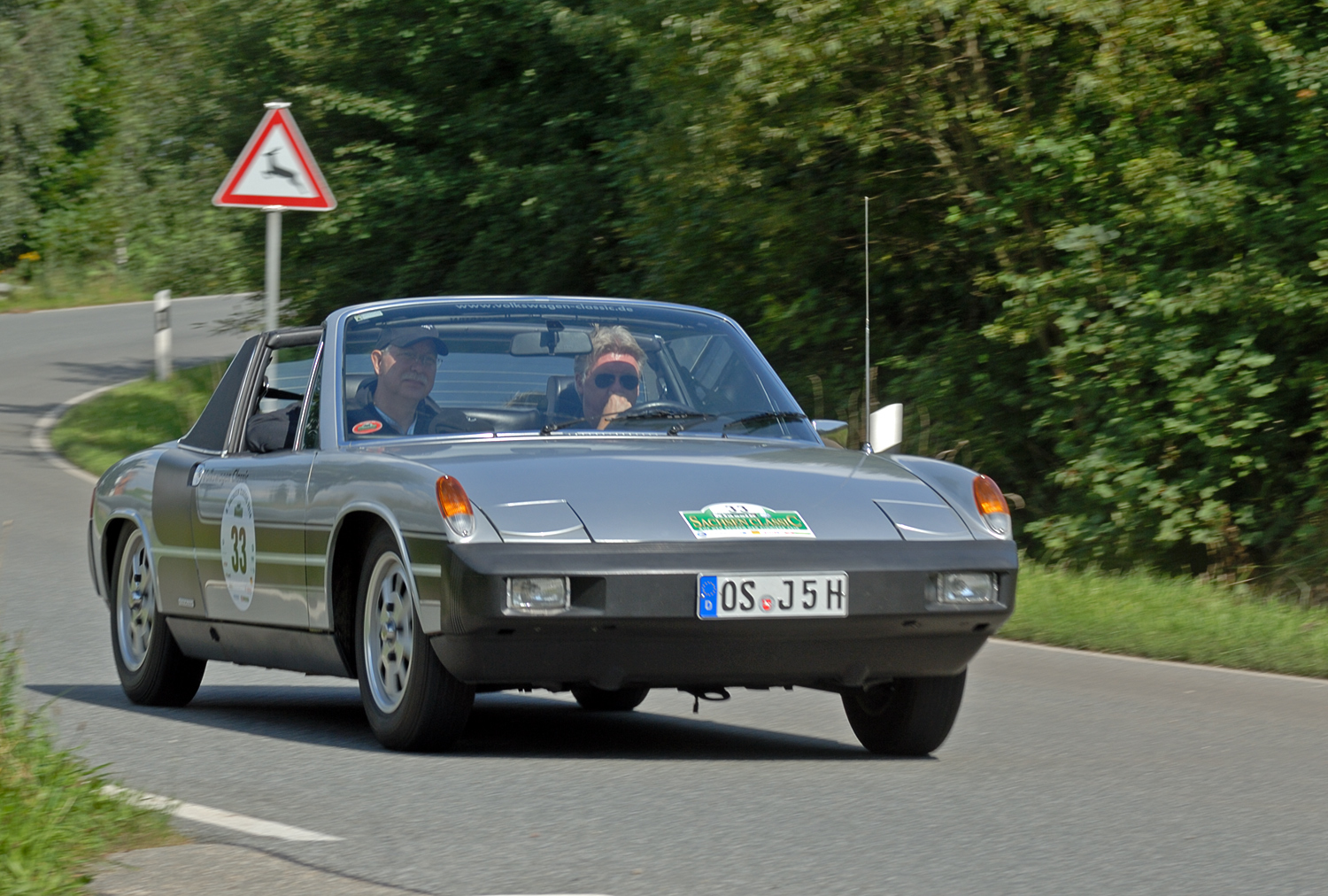 VW Porsche 914/4 from 1974 during the Saxony Classic Rallye 2010